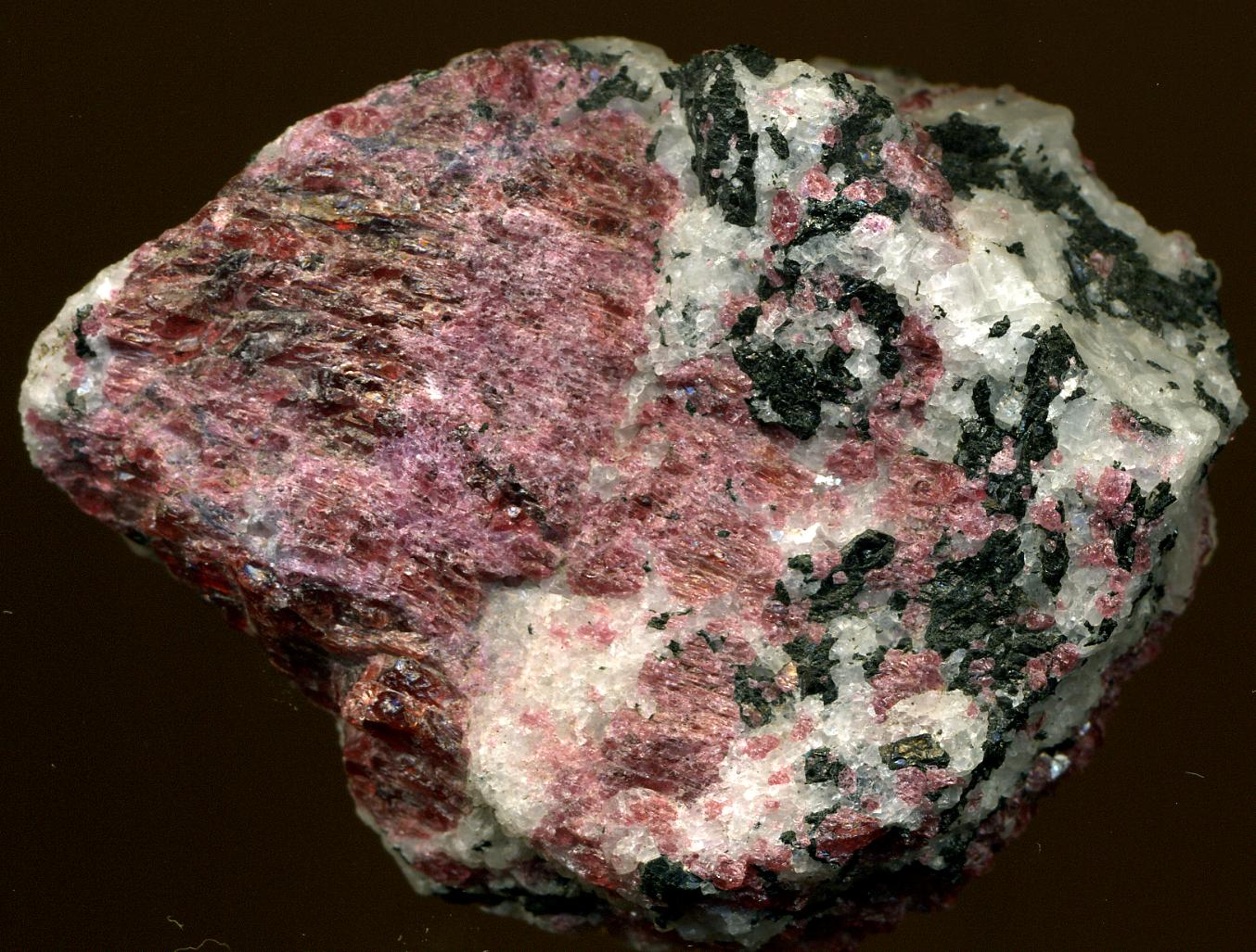 Eudialytic metasyenite (6.8 cm across) from the Precambrian of Quebec, Canada. Eudialyte is an attractive, rare, pinkish-red silicate mineral having a moderately complex chemistry. Eudialyte is a sodium-calcium-cesium-iron-manganese-yttrium-zirconium hydroxychlorosilicate (Na4(Ca,Ce)2(Fe,Mn,Y)ZrSi8O22(OH,Cl)2). The rock shown here has a significant eudialyte component, along with sodic plagioclase feldspar (white) and arfvedsonite amphibole (black). It is a eudialytic peralkaline syenite (or metasyenite, as the rocks on the outcrop scale have a weakly developed, coarse-scale foliation). Locality - apparently the “rare-earth occurrence” locality of Currie & Van Breemen (1996 - Canadian Mineralogist 34: 435-451) and Currie (1998 - Geological Survey of Canada Current Research 1998-C: 167-172), near the Kipawa River between Lake Sheffield and Lake Sairs, Villedieu Township, south-central Témiscamingué County, southwestern Quebec, southeastern Canada. Geologic origin - published information indicates that the eudialyte is metasomatic in origin (= formed by the significant addition of chemicals to pre-existing rocks), and dates to about 994 million years (late Mesoproterozoic). The host syenite rock is mid-Mesoproterozoic in age (~1.24 billion years). It forms part of the Kipawa Syenite Complex in the Kipawa Syncline area of the Grenville Province, near the Grenville Province-Superior Province boundary.